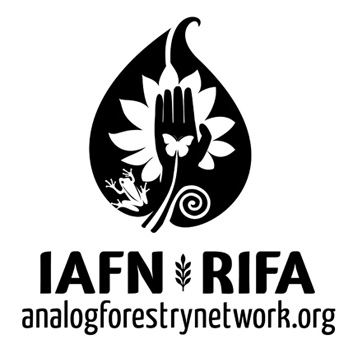 This is the logo of the International Analog Forestry Network.